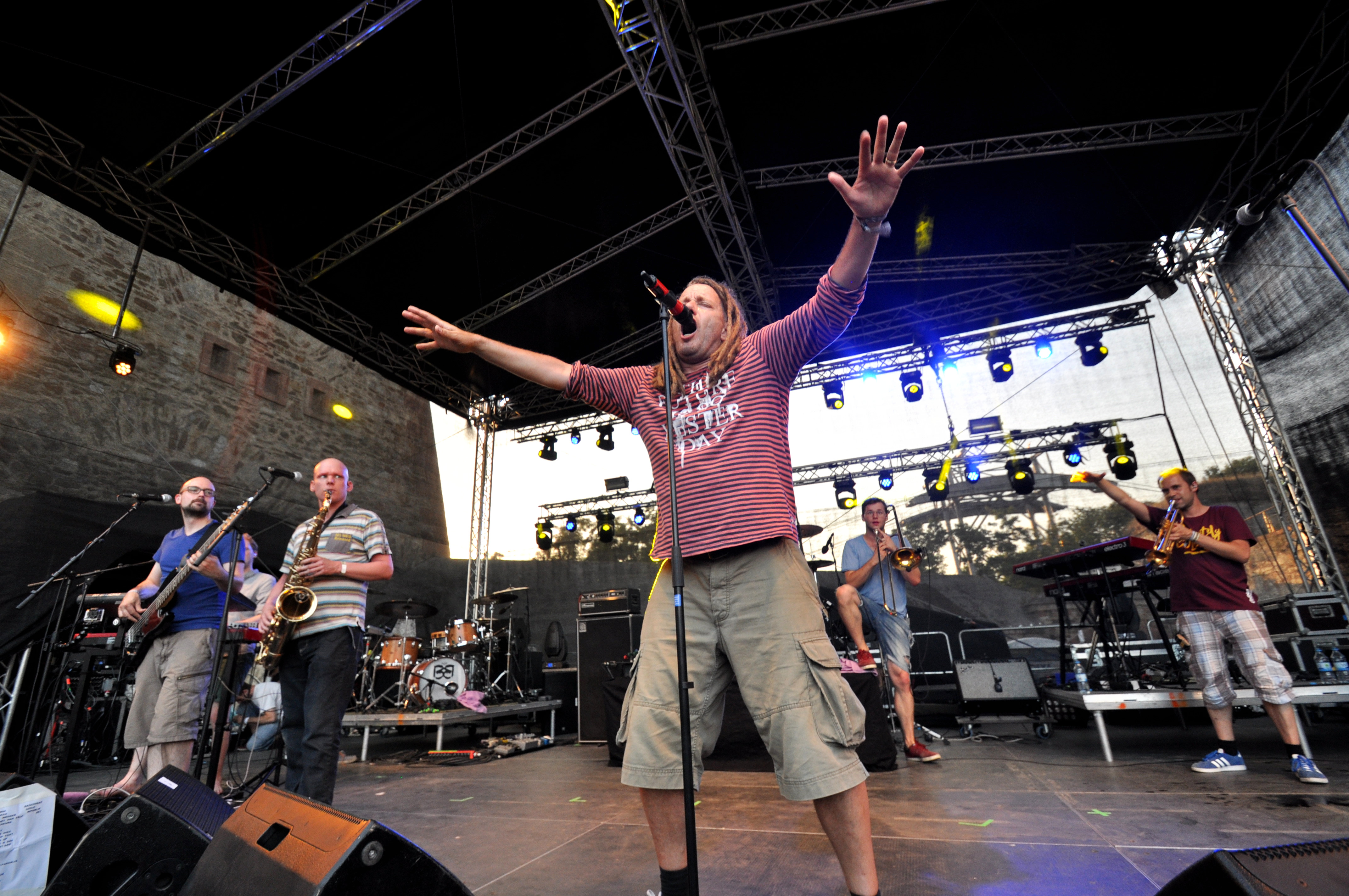 Bazzookas (NLD), World Music Festival Horizonte 2015, Fortress Ehrenbreitstein, Koblenz, Rhineland-Palatinate, Germany Festivalsommer This photo was created with the support of donations to Wikimedia Deutschland in the context of the CPB project "Festival Summer".